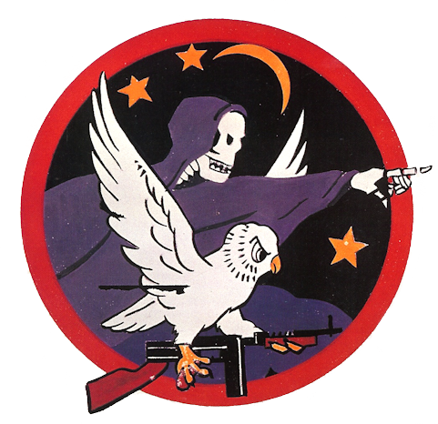 Emblem of the 416th Night Fighter Squadron (World War II)